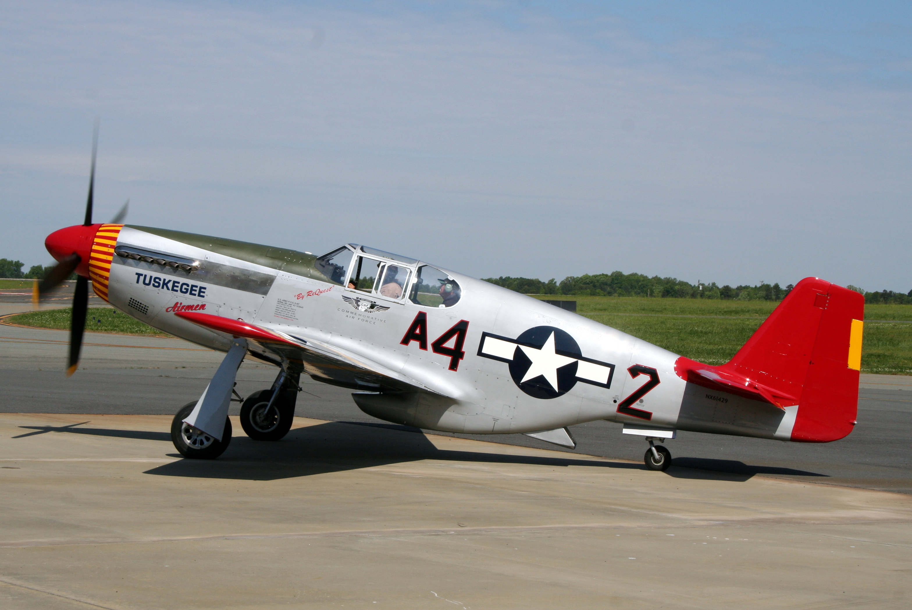 P-51 Mustang on the ramp at CLT